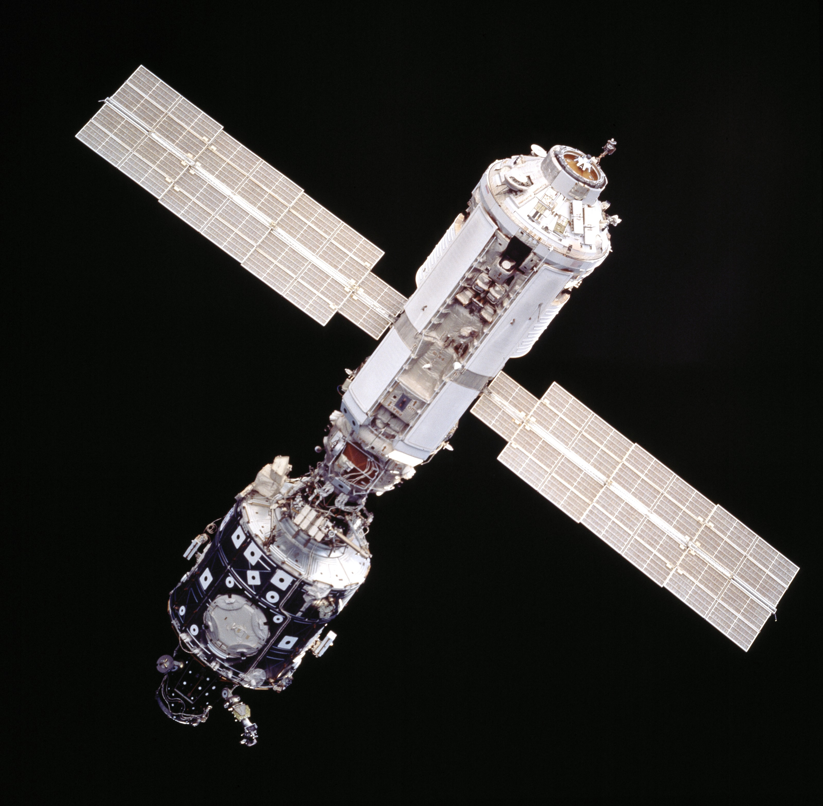 The International Space Station is contrasted against the darkness of space in this post-docking view, captured on film with a 70mm, handheld camera from inside the cabin of the Earth-orbiting Space Shuttle Atlantis.